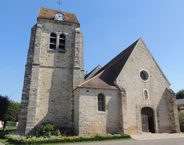 flowers and the church with both tiles and wood shingles in Moissy Cramayel